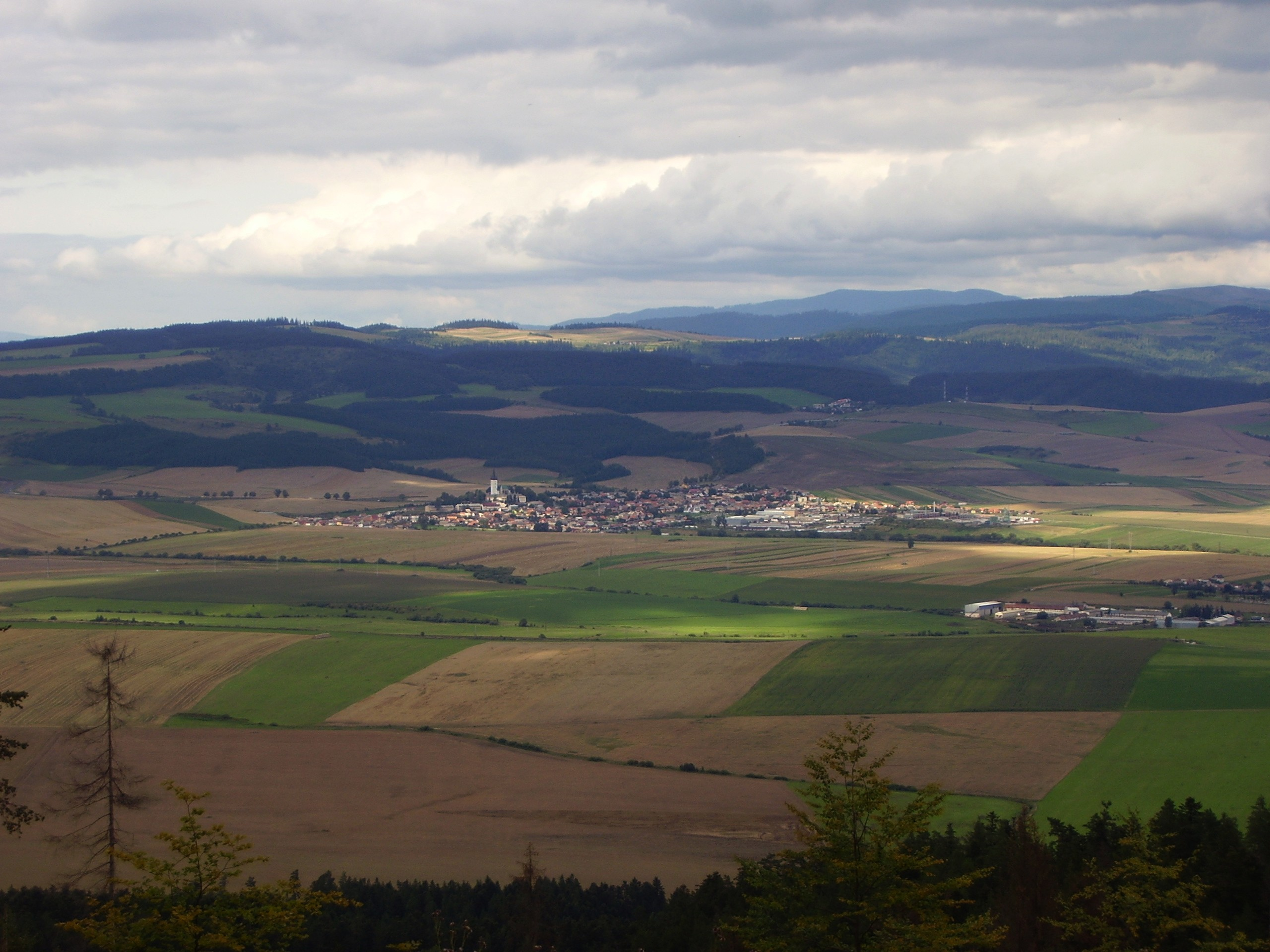 Look at Spišský štvrtok, SNV district